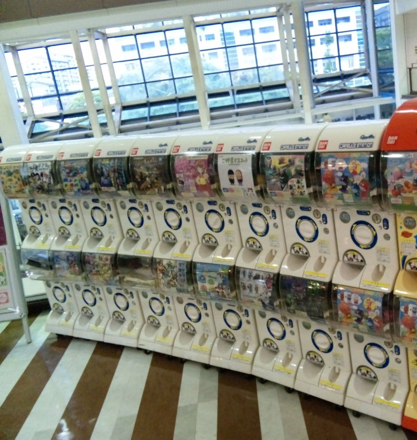 Gashapon machine